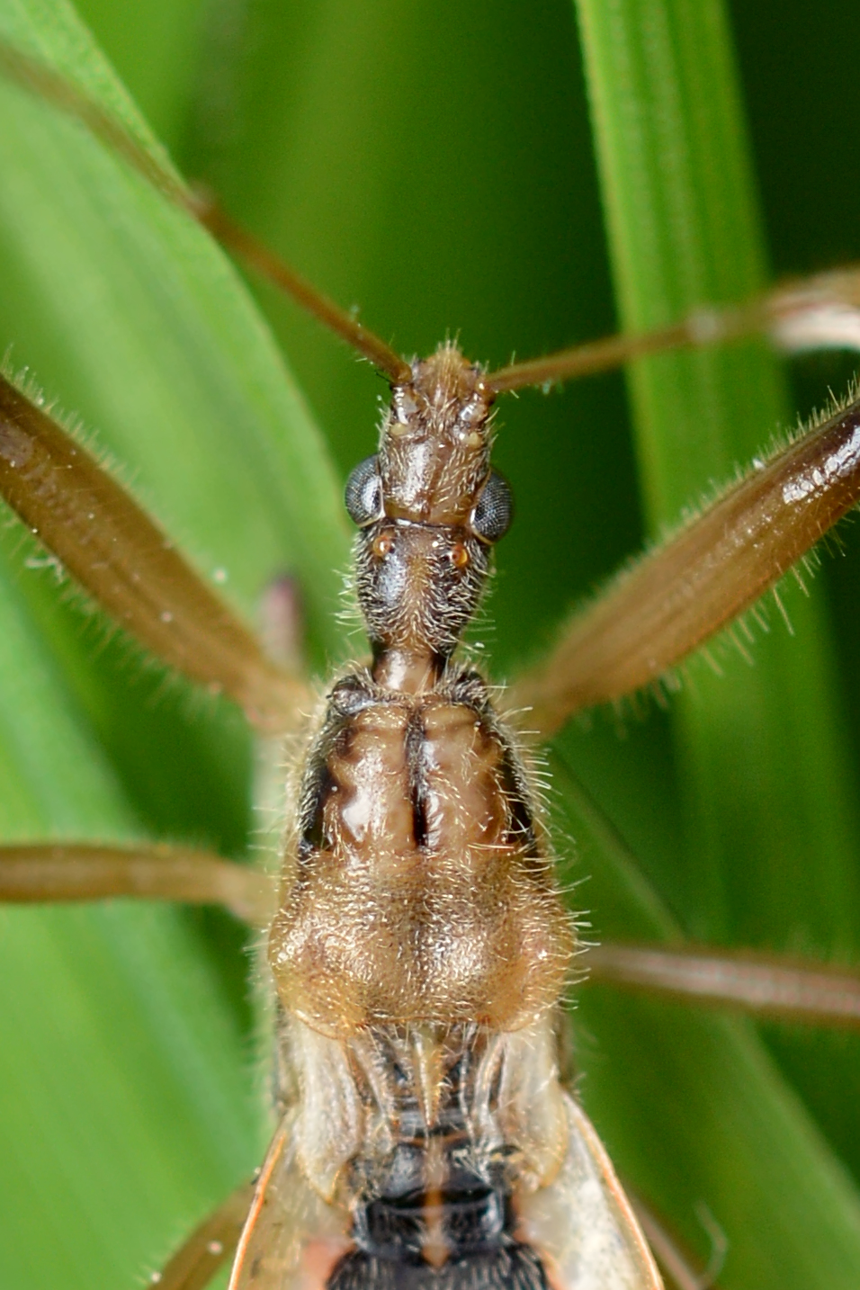 Fitchia aptera in Guelph, Ontario, Canada.